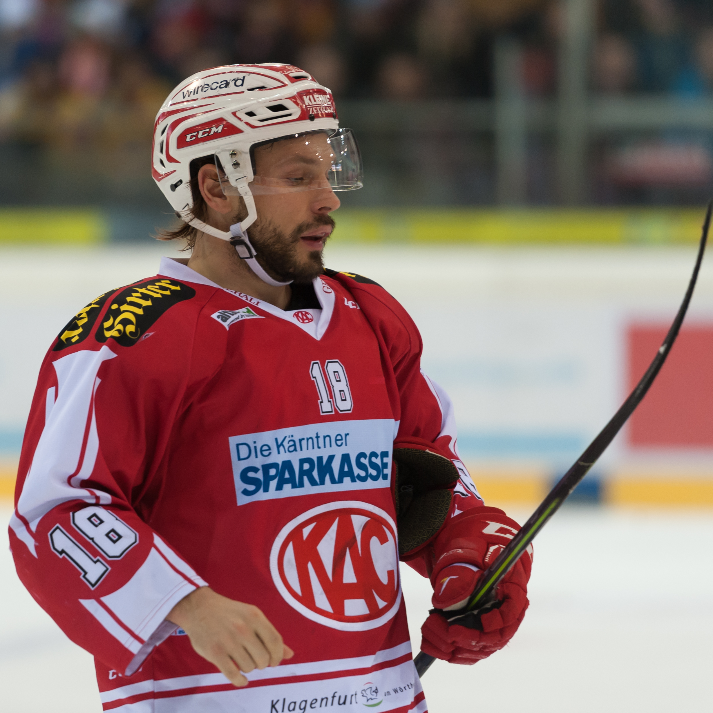 EBEL Vienna Capitals vs EC-KAC 2016-01-03